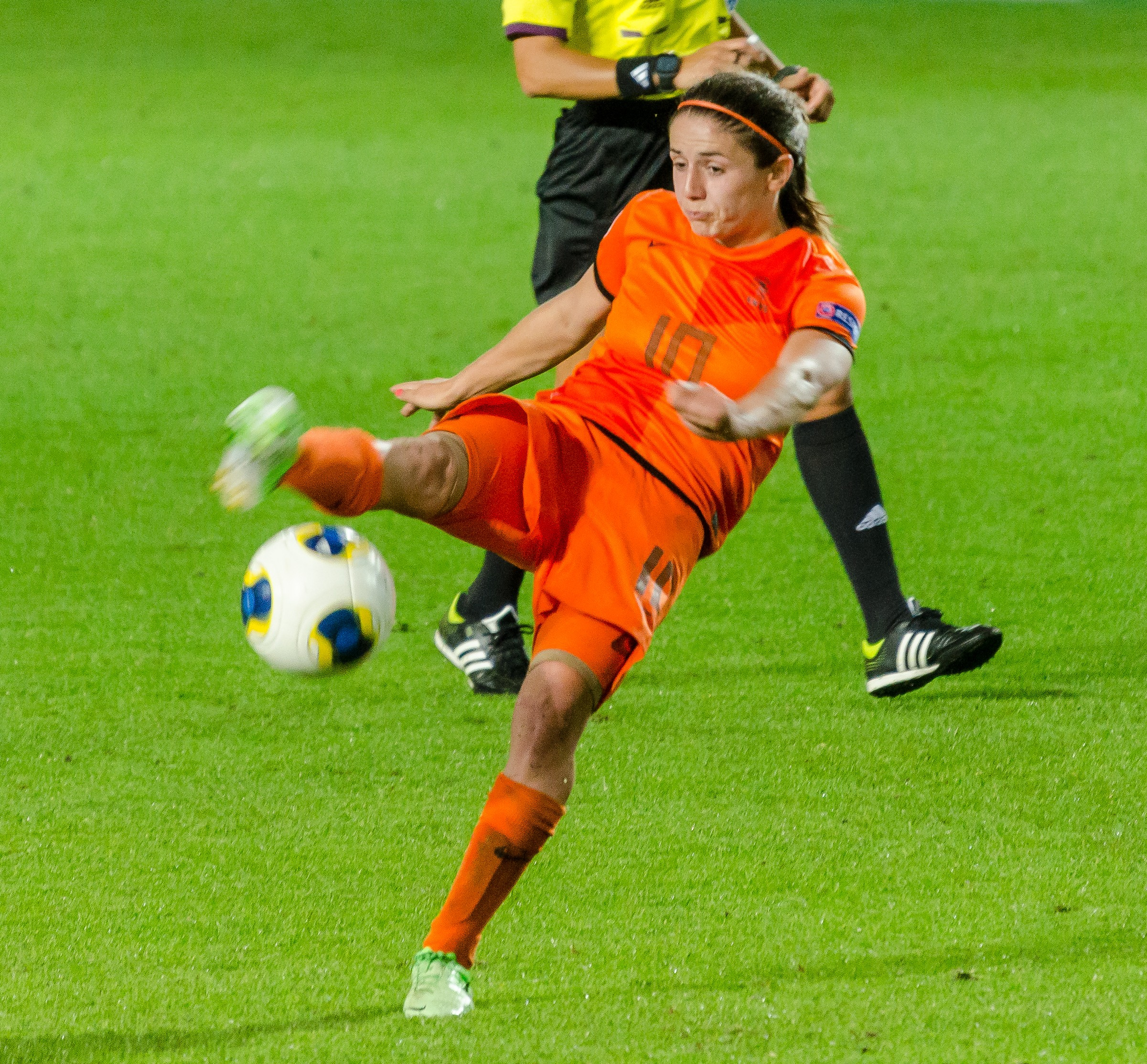 Dutch midfielder Daniëlle van de Donk playing the team's first game of the UEFA Women's Euro 2013, 0-0 against Germany in Växjö.